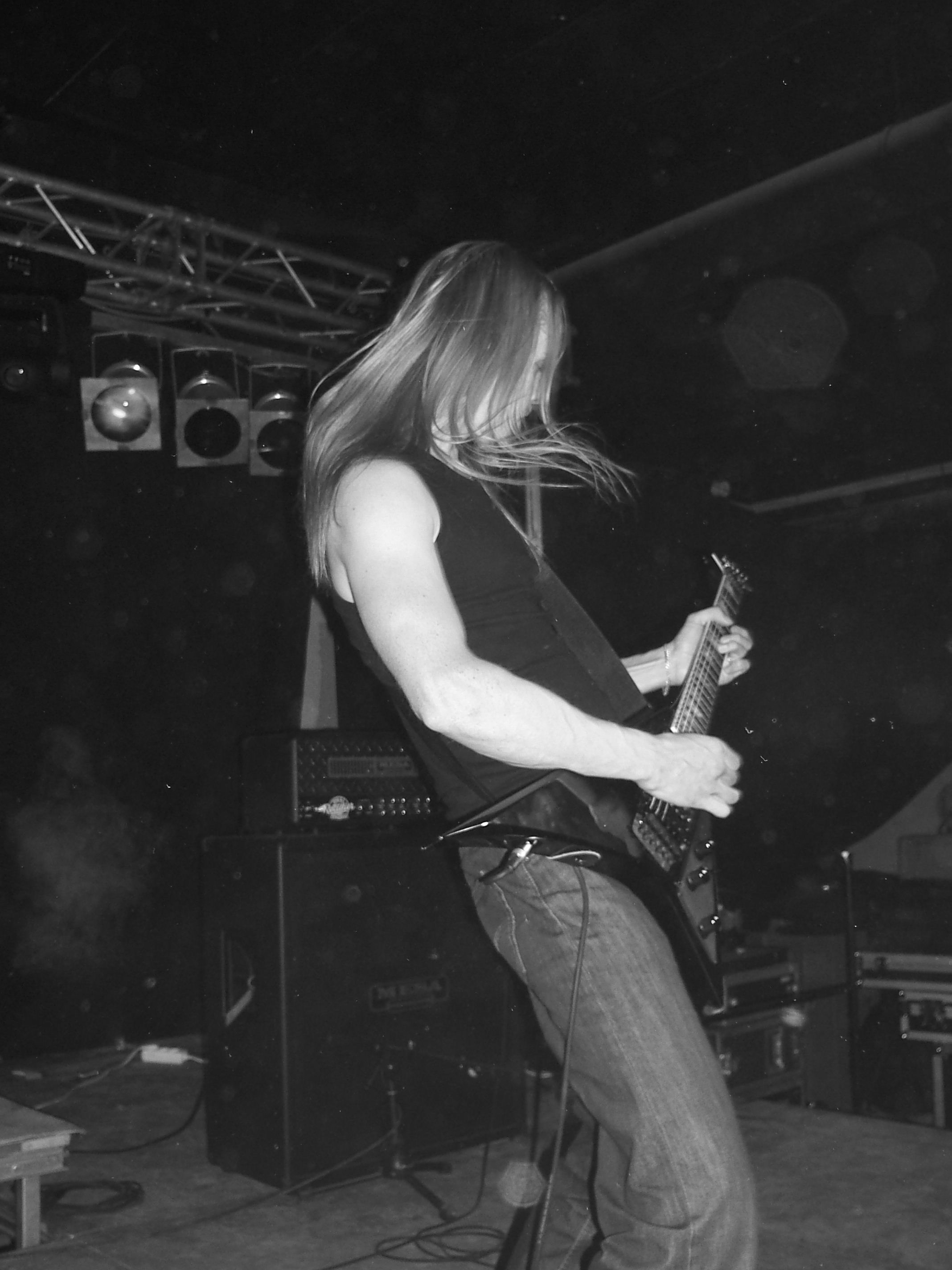 Finnish melodic death metal musical group Immortal Soul's guitarist Esa Särkioja at Metalfest 07, Bad Hersfeld, Germany.